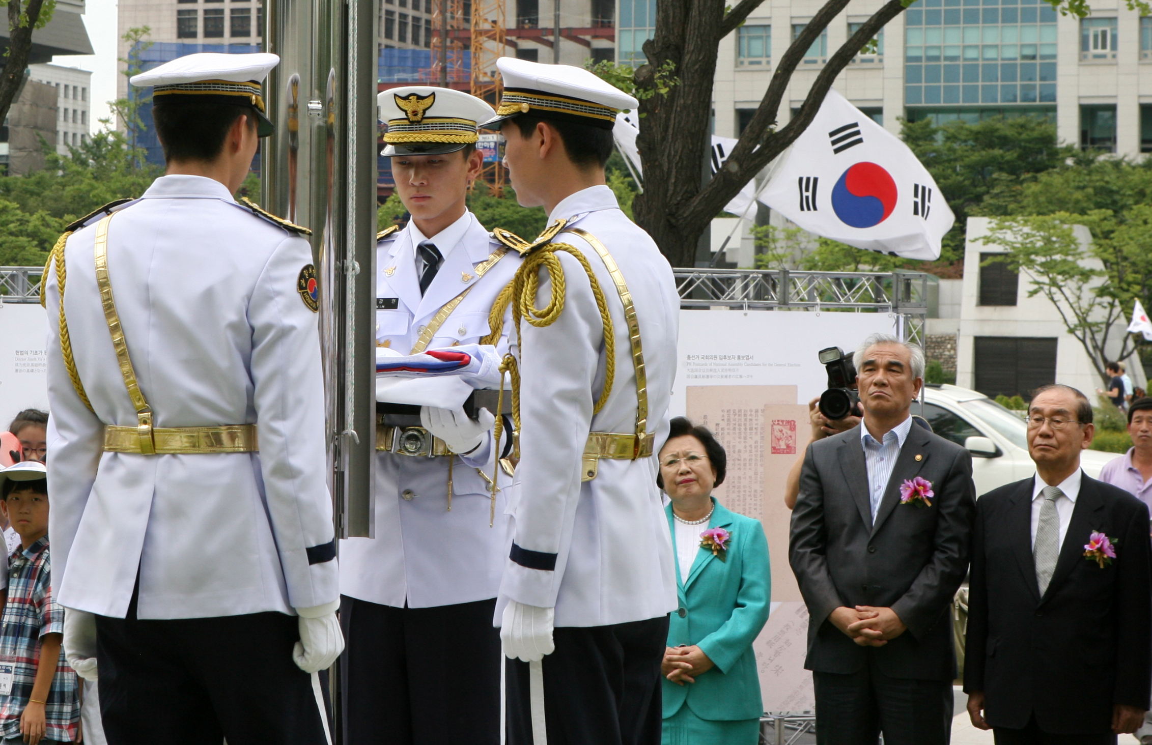 National Liberation Day of Korea